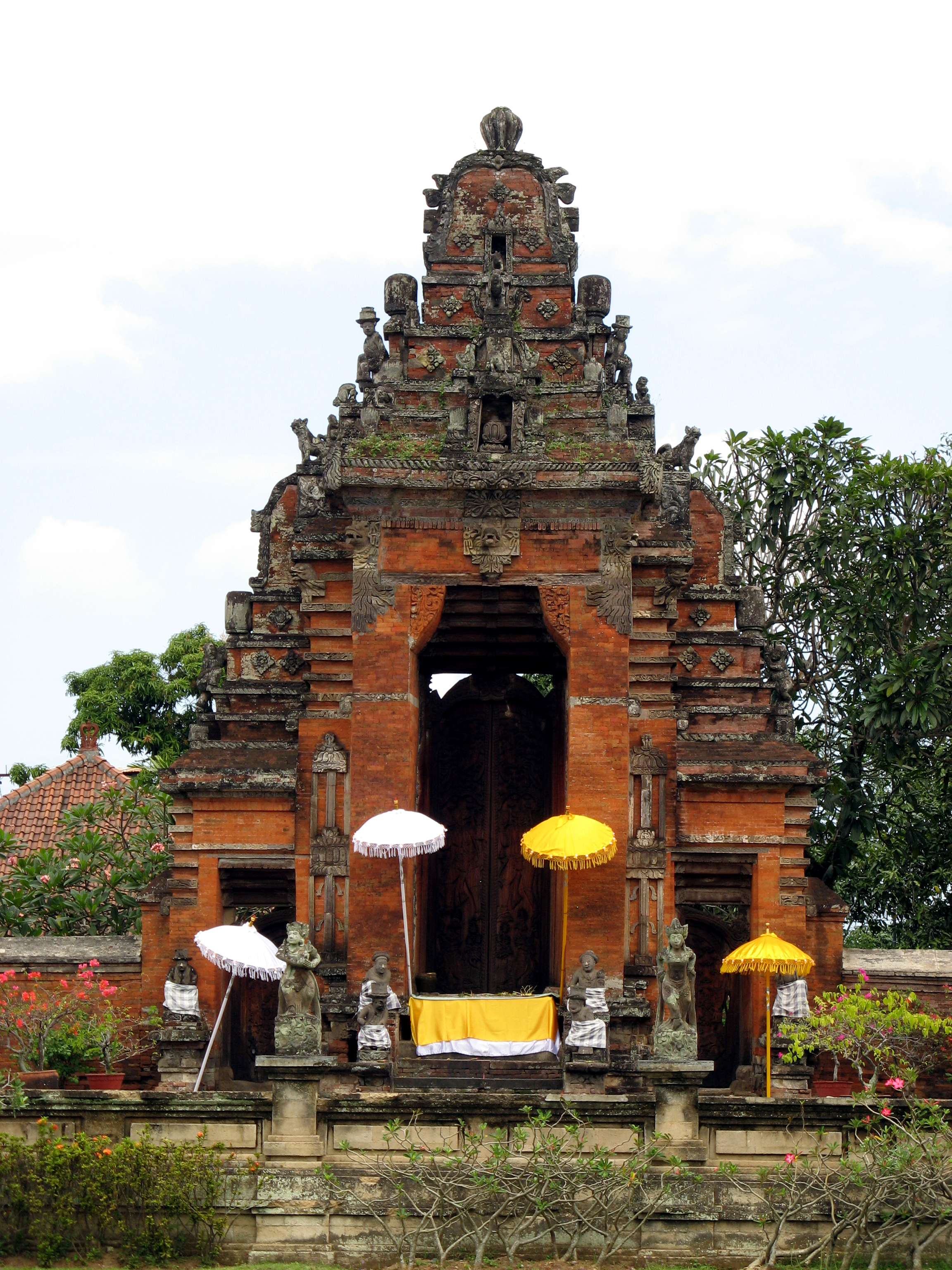 The form and decoration of this gateway resembles the grand inner gate of Taman Ayung. Its roof is decorated with figures that include some Europeans who perch near the top. More top-hatted Europeans, wrapped in the traditional honorific cloth, guard the base of the gateway. Western visitors should not feel flattered, though, since temple guardians in this part of the world have always been seen as powerful, but thuggish, ogres who definitely belong to the lower regions of the spiritual realm. The temple's European guardians are merely followers in this long tradition.